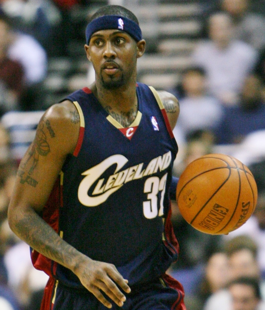 Cleveland Cavaliers player Larry Hughes.